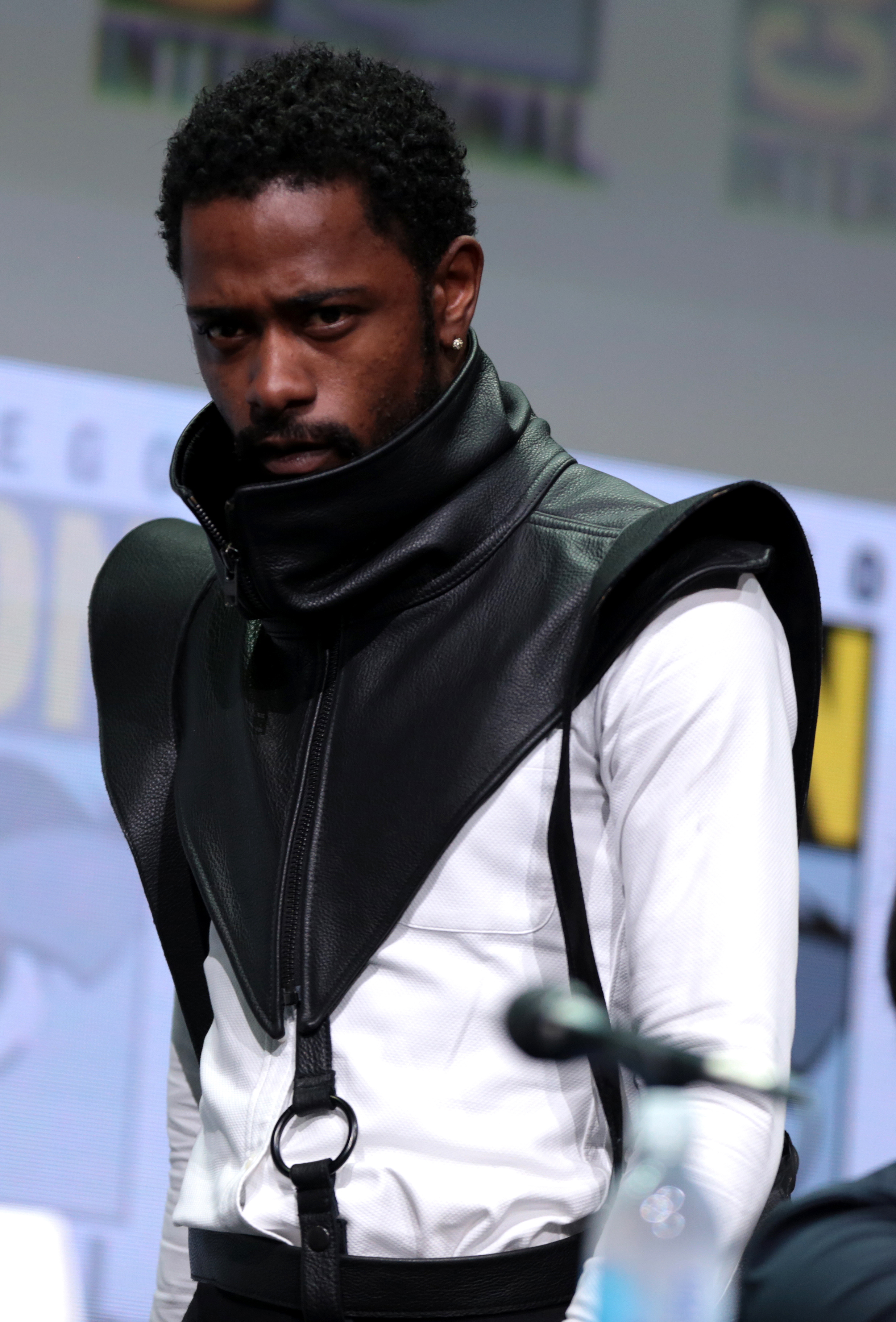 Keith Stanfield speaking at the 2017 San Diego Comic-Con International in San Diego, California.